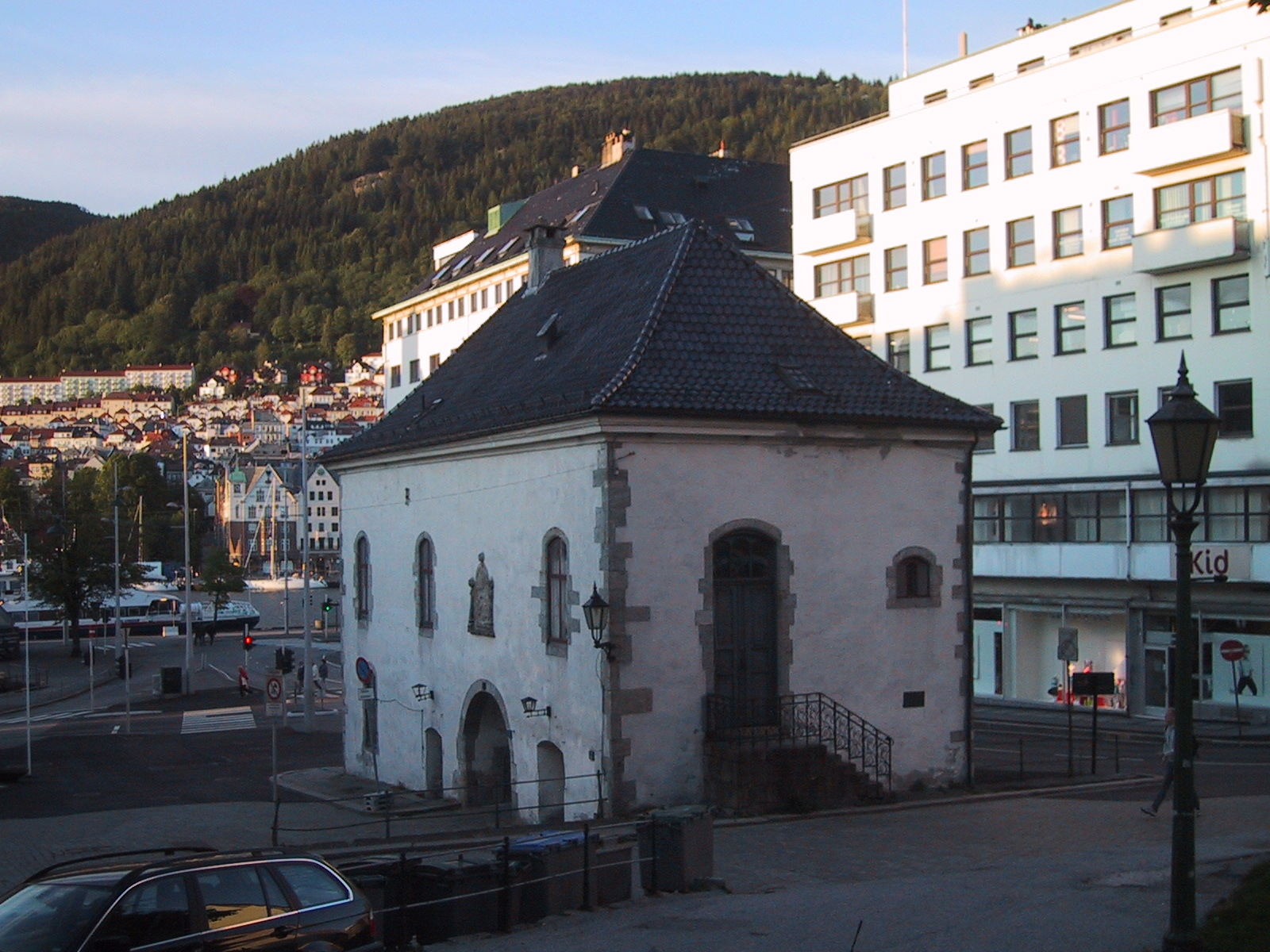 Muren in Bergen